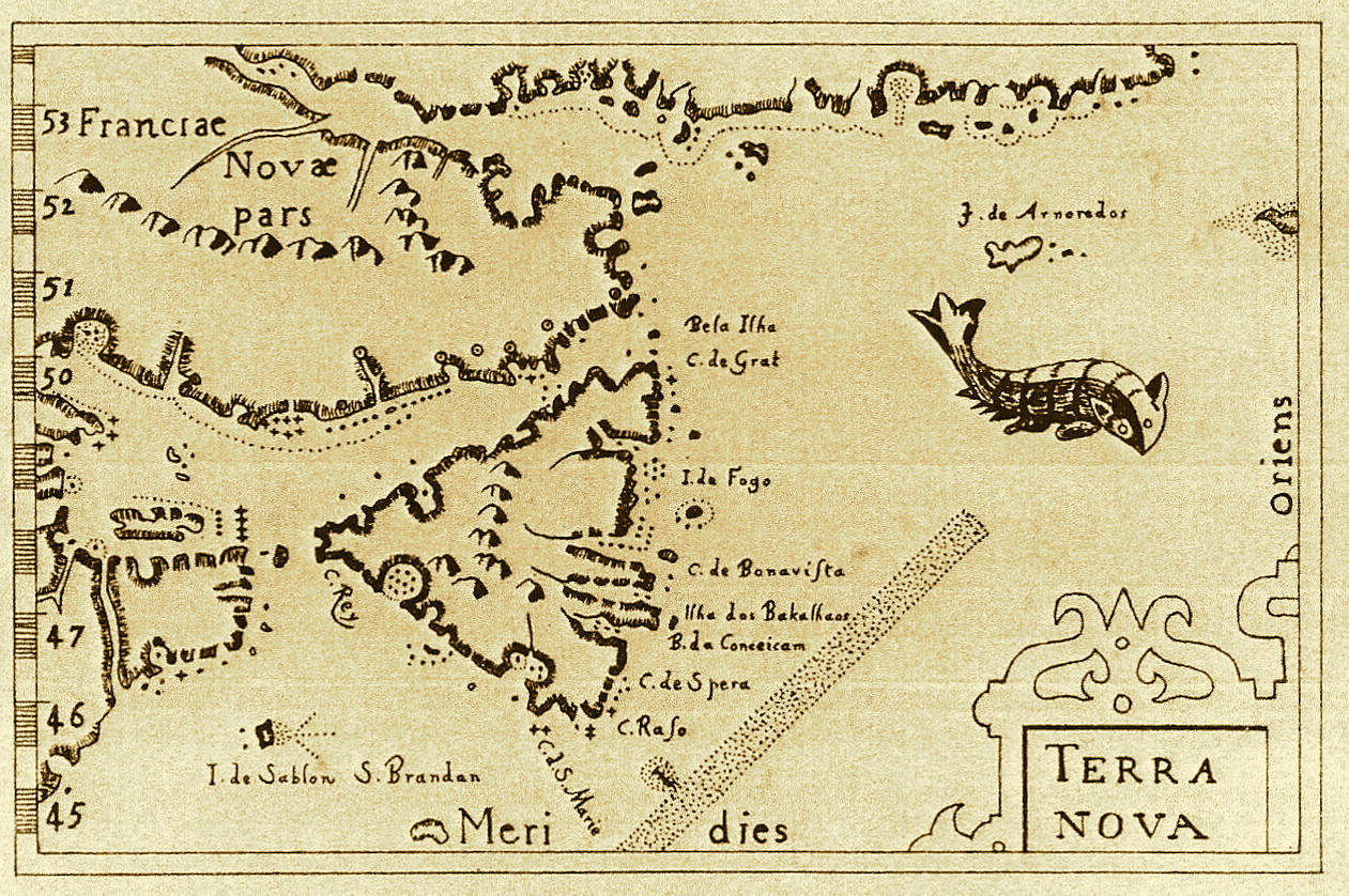 Excerpt from an ancient map of the Atlantic Ocean featuring Newfoundland